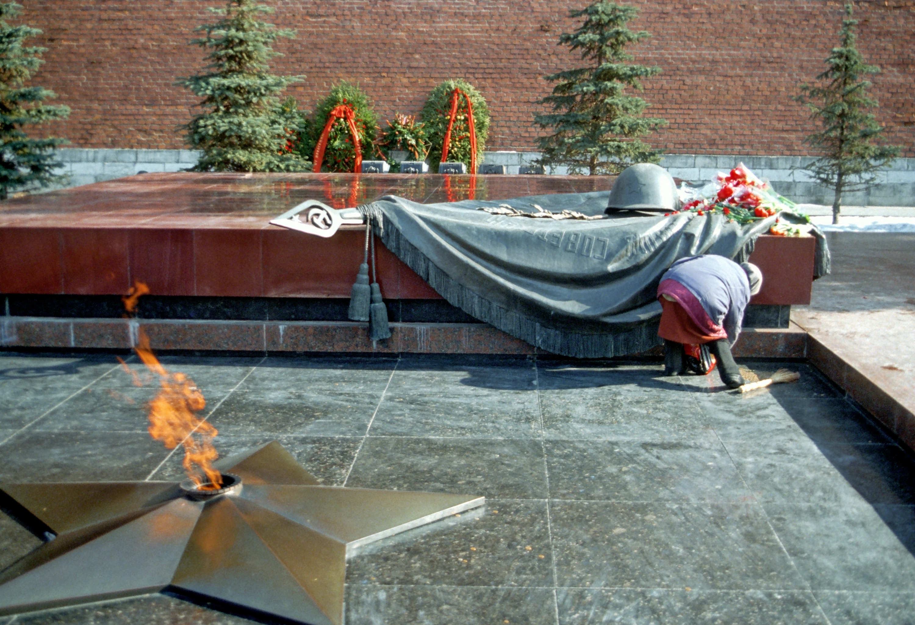 Coins collection on the Tomb of the Unknown Soldier in Alexander Garden, 1989